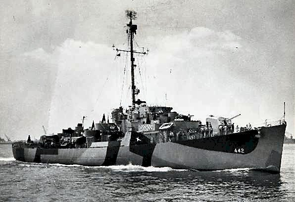 The U.S. Navy destroyer escort USS Ulvert M. Moore (DE-442) being delivered from the Federal Shipbuilding & Drydock Company in Newark, New Jersey (USA) on 17 July 1944. She is painted in Camouflage Measure 31, Design 2C.